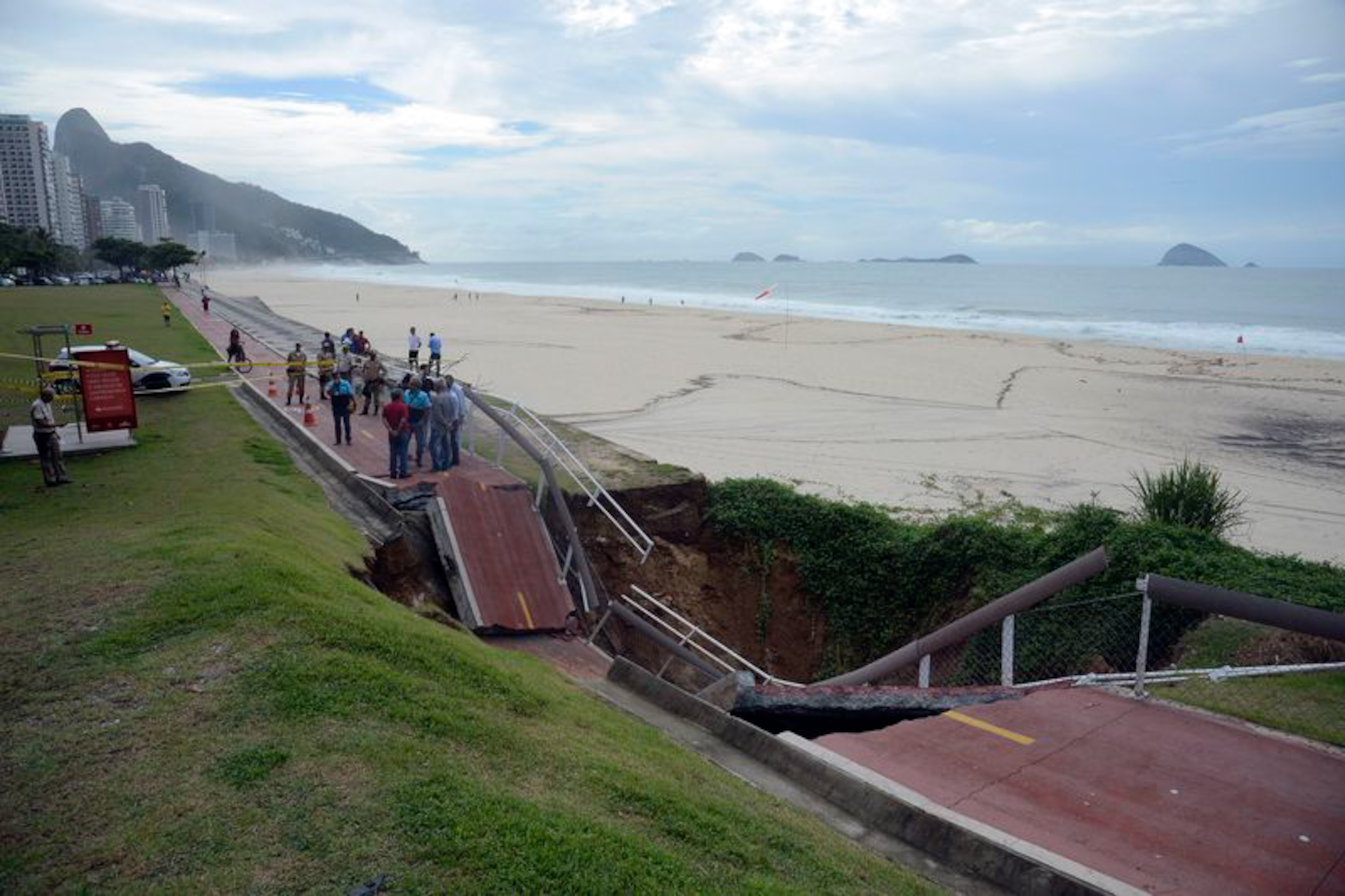 Bicycle route Ciclovia Tim Maia, damage 2018, and beach of São Conrado with mountain Morro Dois Irmãos in Rio de Janeiro behind in the East.